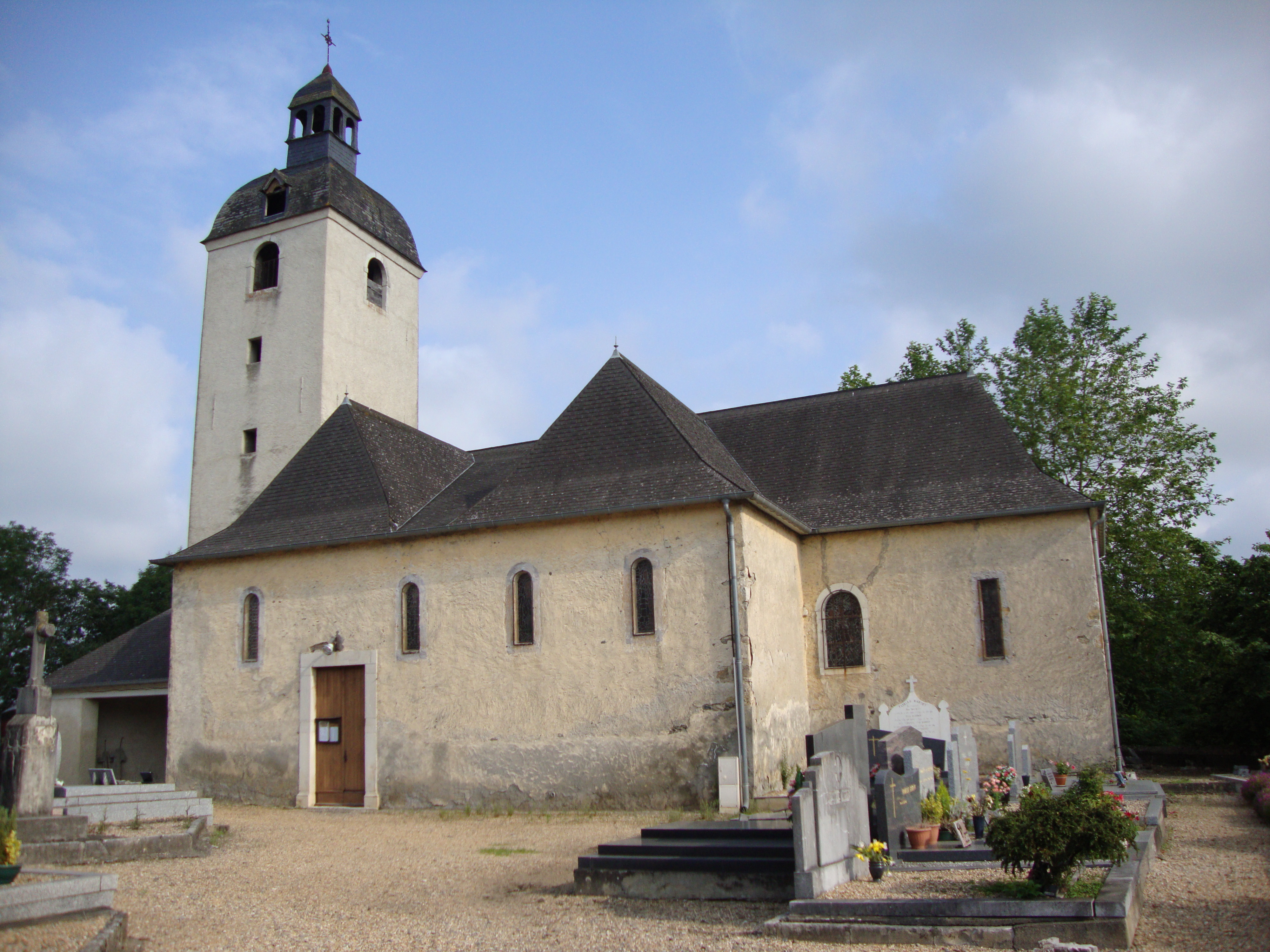 Préchacq-Josbaig (Pyr-Atl, Fr) church